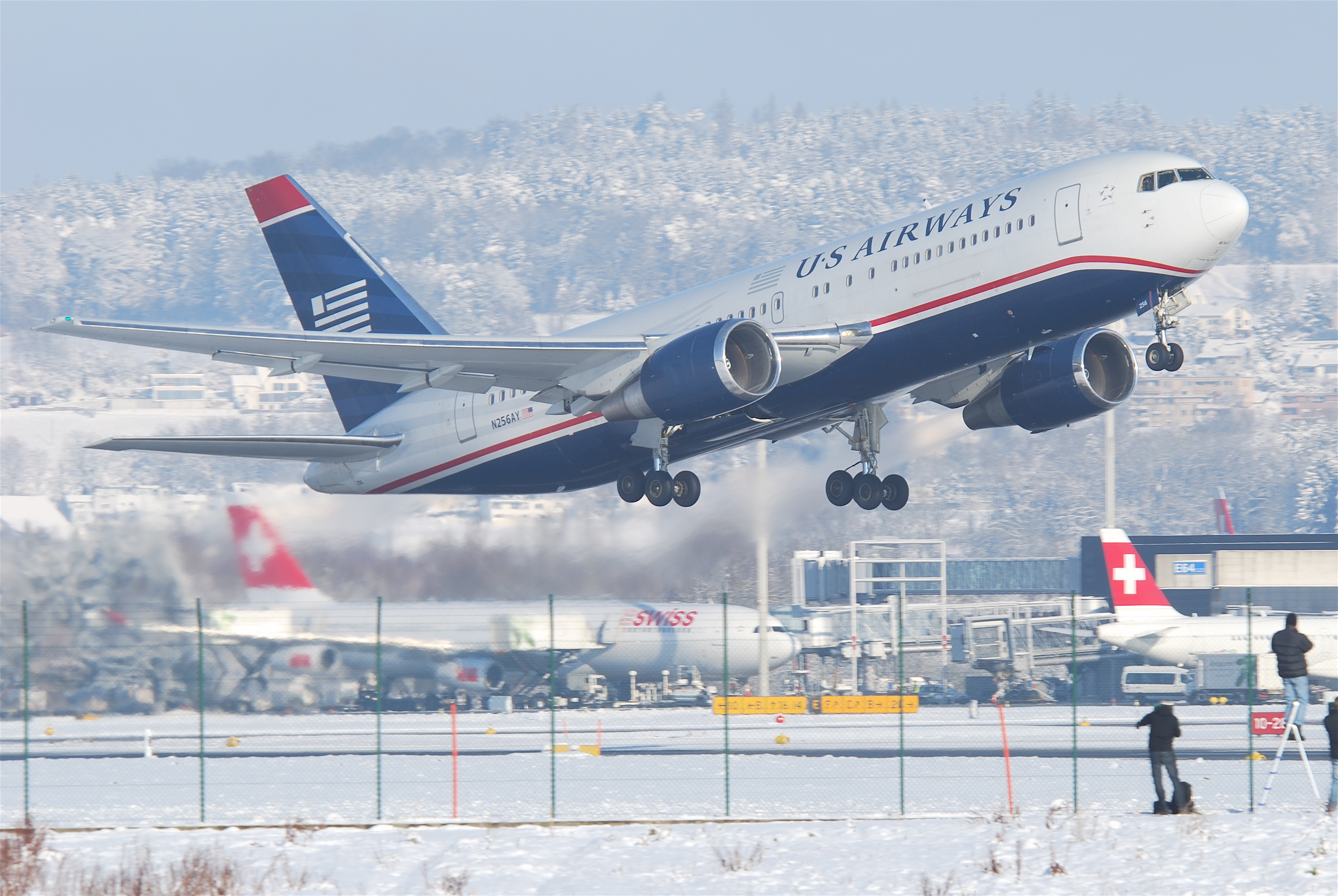 US Airways Boeing 767-2B7ER; N256AY@ZRH;26.12.2010/591ck